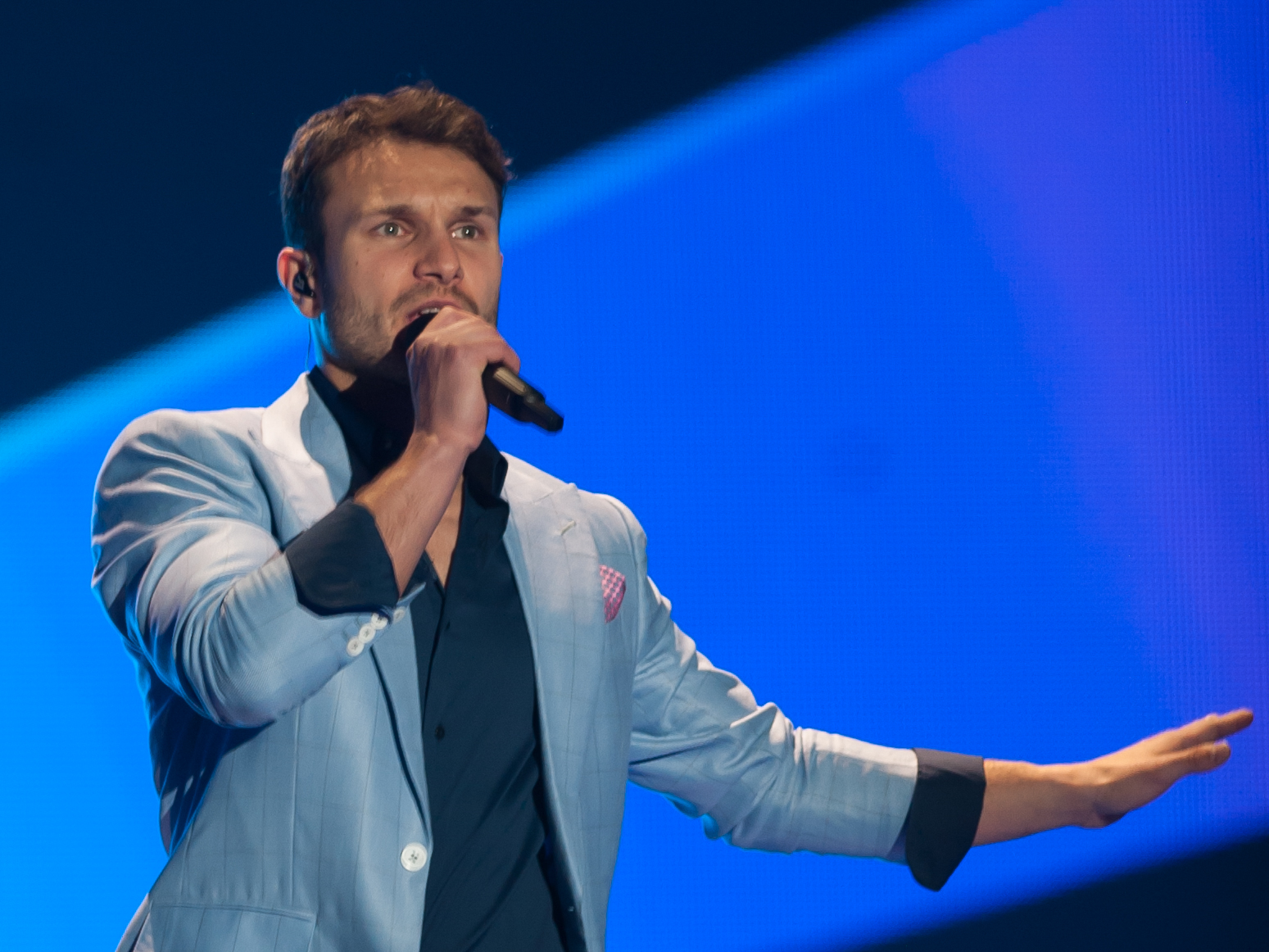 Eurovision Song Contest Vienna 2015: Monika Linkytė & Vaidas Baumila